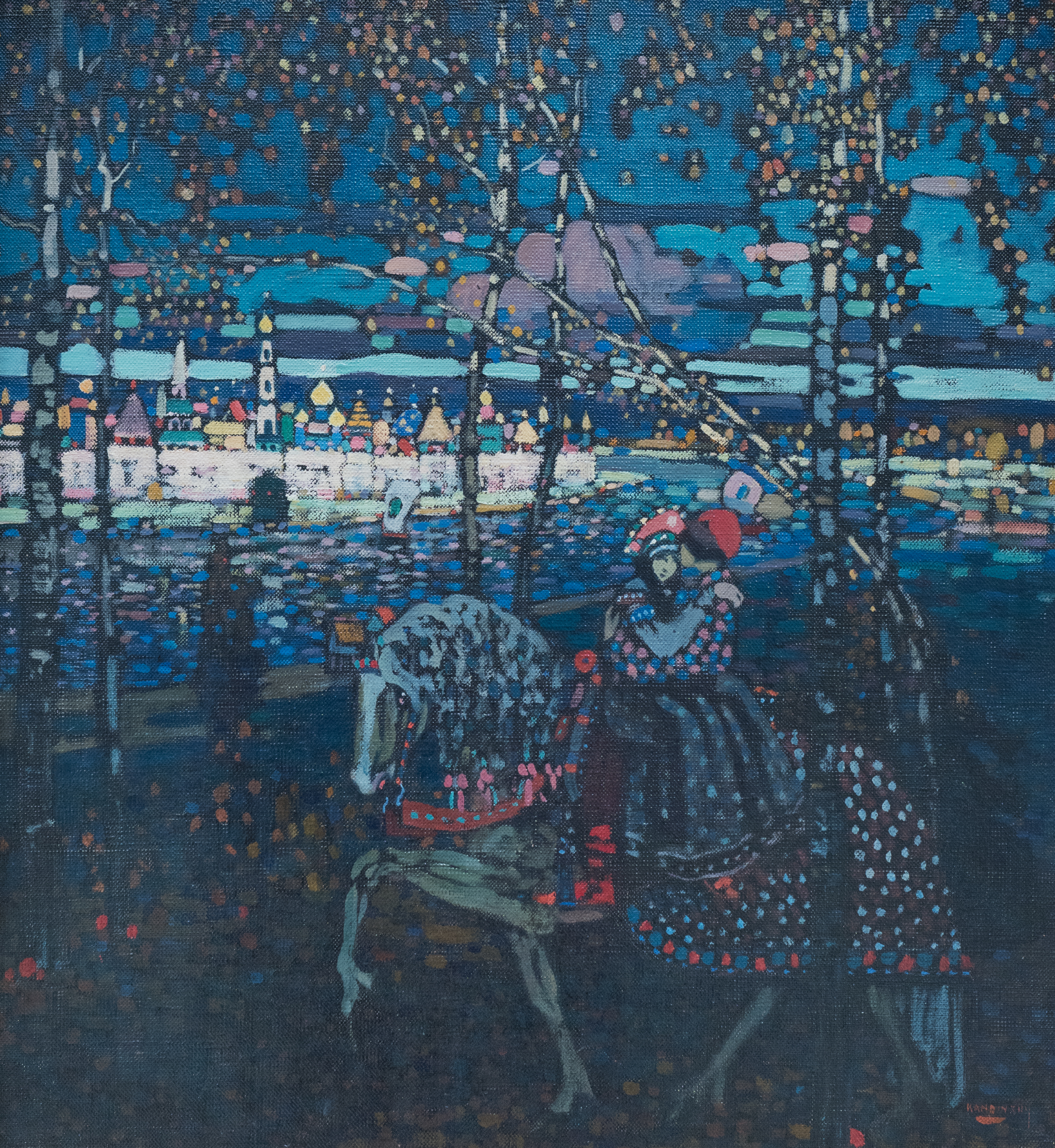 Riding couple